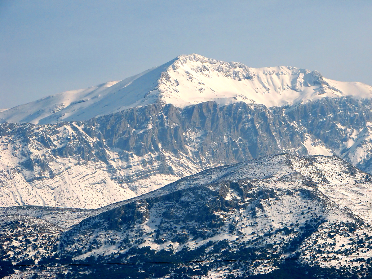 North view of Spathi summit at Dikti range in early spring.